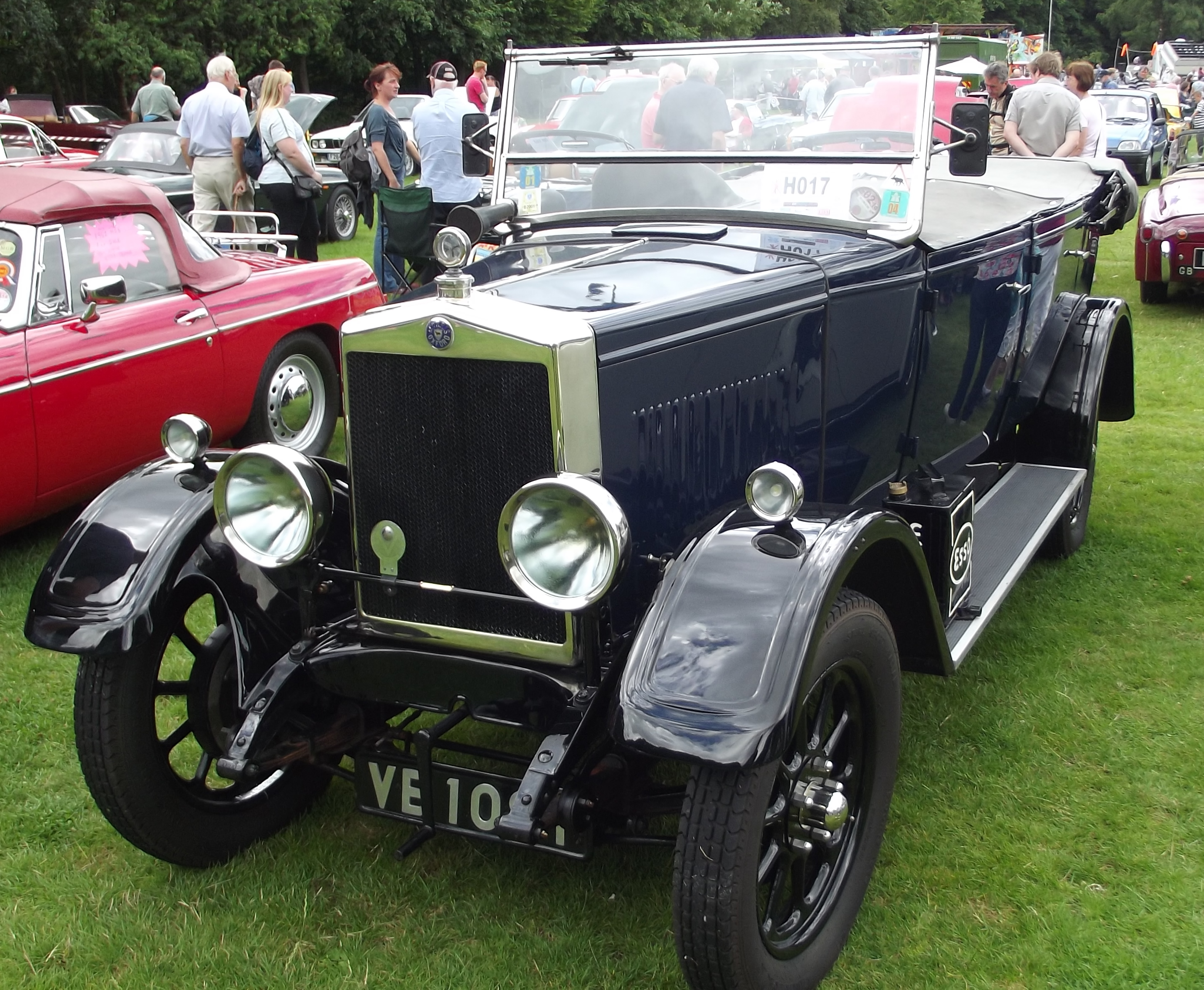 1927 Morris Oxford tourer (DVLA) first registered 31 October 1927 hebden bridge vintage weekend 2013